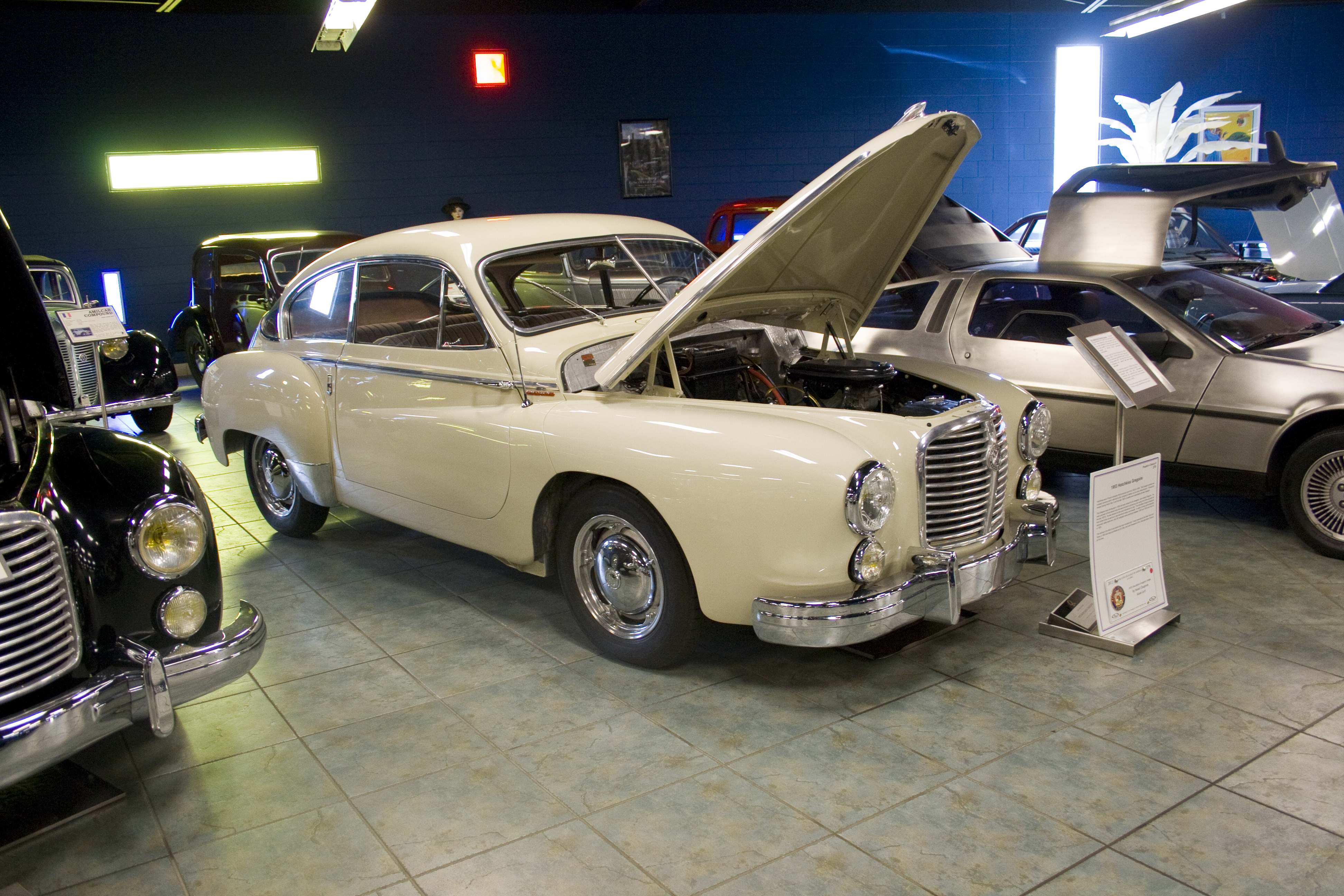 This car was owned by Ed Cole, Chief Engineer at GM and is thought to have influences GM designs in the 50s.